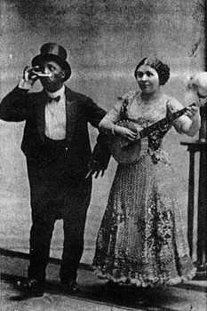 African American musician Pete Hampton and his partner Laura Bowman.